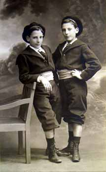 Navarre-jean-pierre-1905